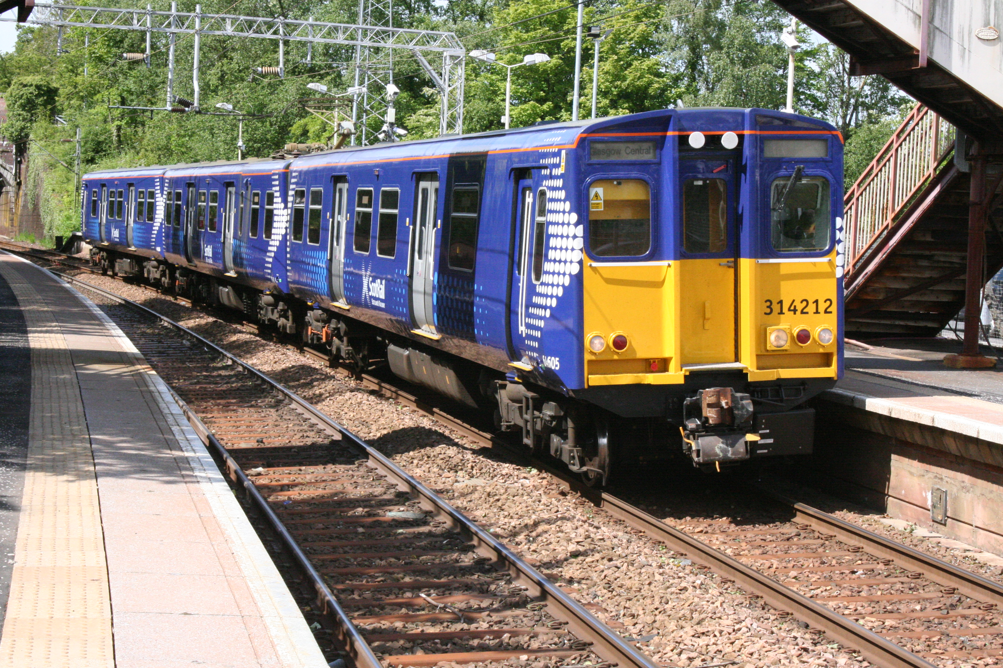 Patterton railway station with Class 314 - 314212 - on 11:36 Neilston to Glasgow Central train (Saturday 28 May 2011)